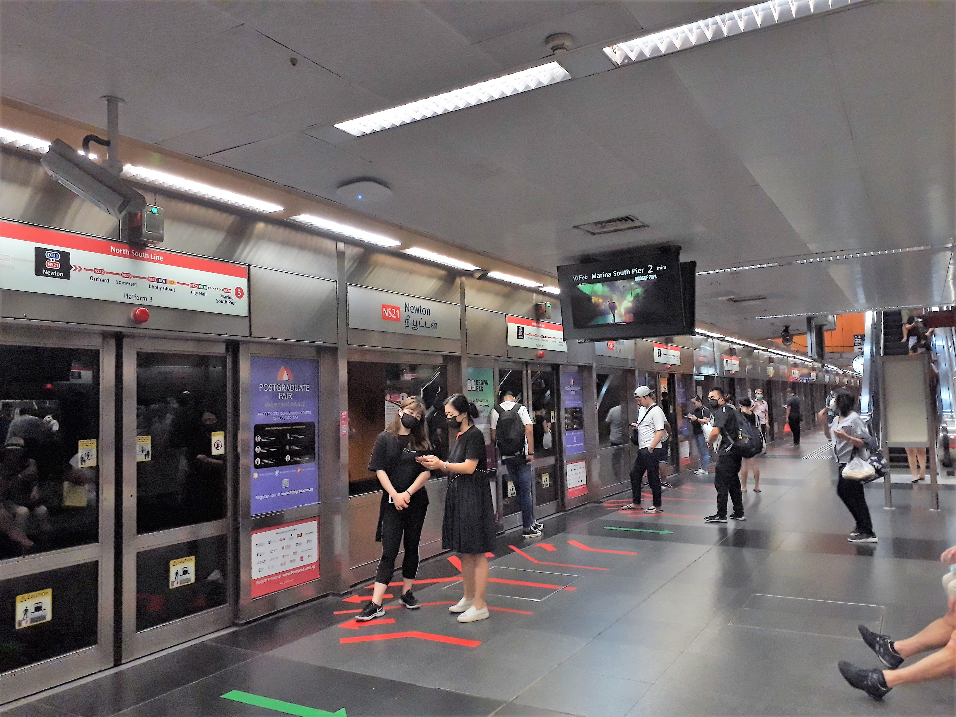 Platform B of Newton station